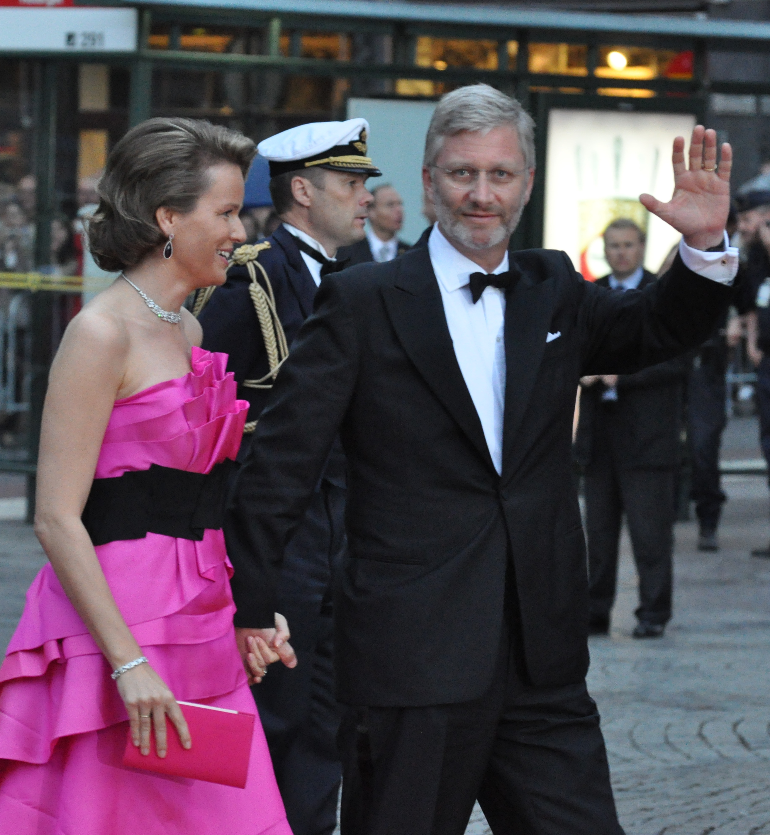 Wedding of Victoria, Crown Princess of Sweden, and Daniel Westling; Arrival of members for the Gouvernment and Swedish and foreign guests of hounour to the Riksdag's Gala Performance at Konserthuset